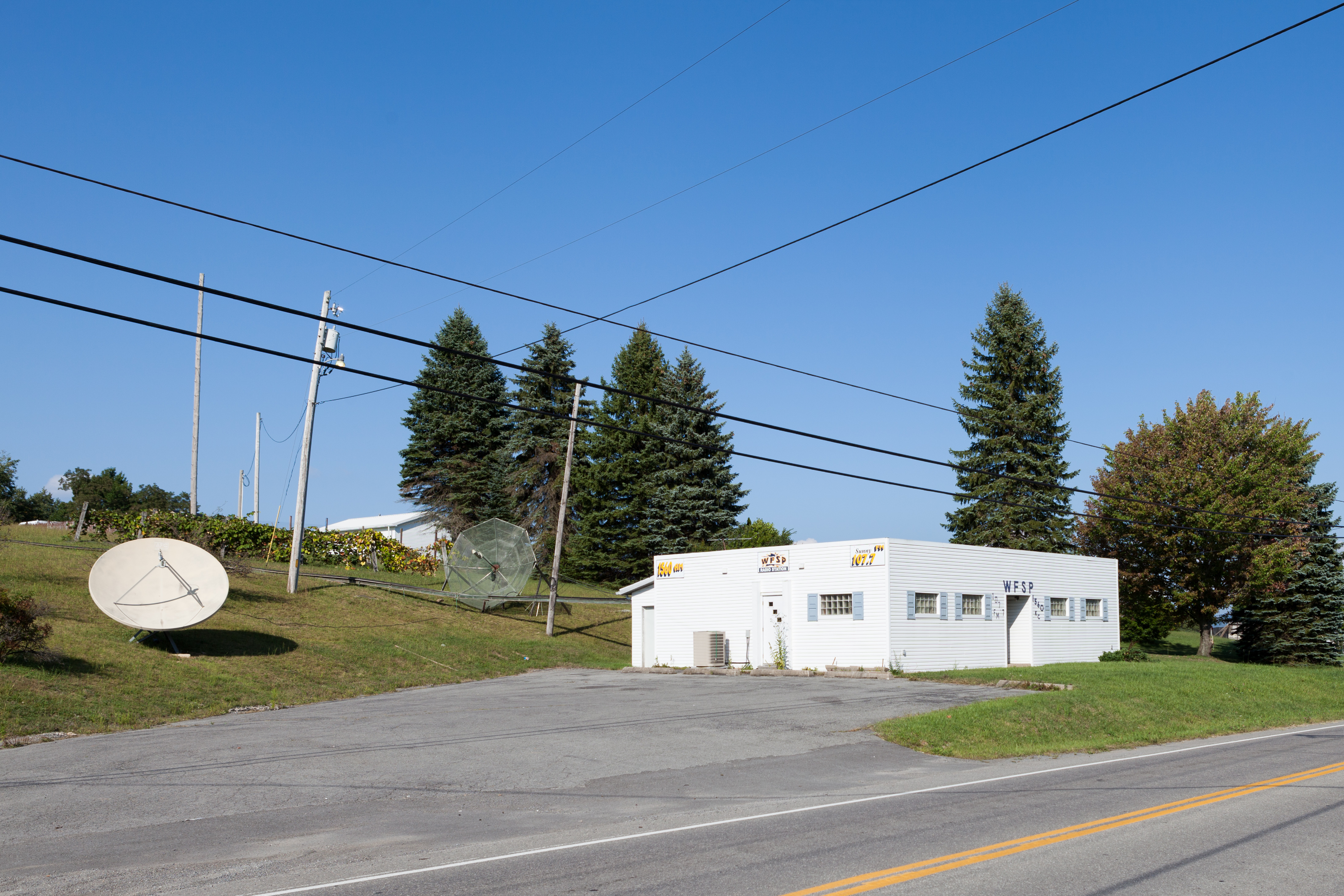 WFSP and WFSP-FM studio on West Virginia Route 7 near Kingwood, West Virginia. Looking northeast.